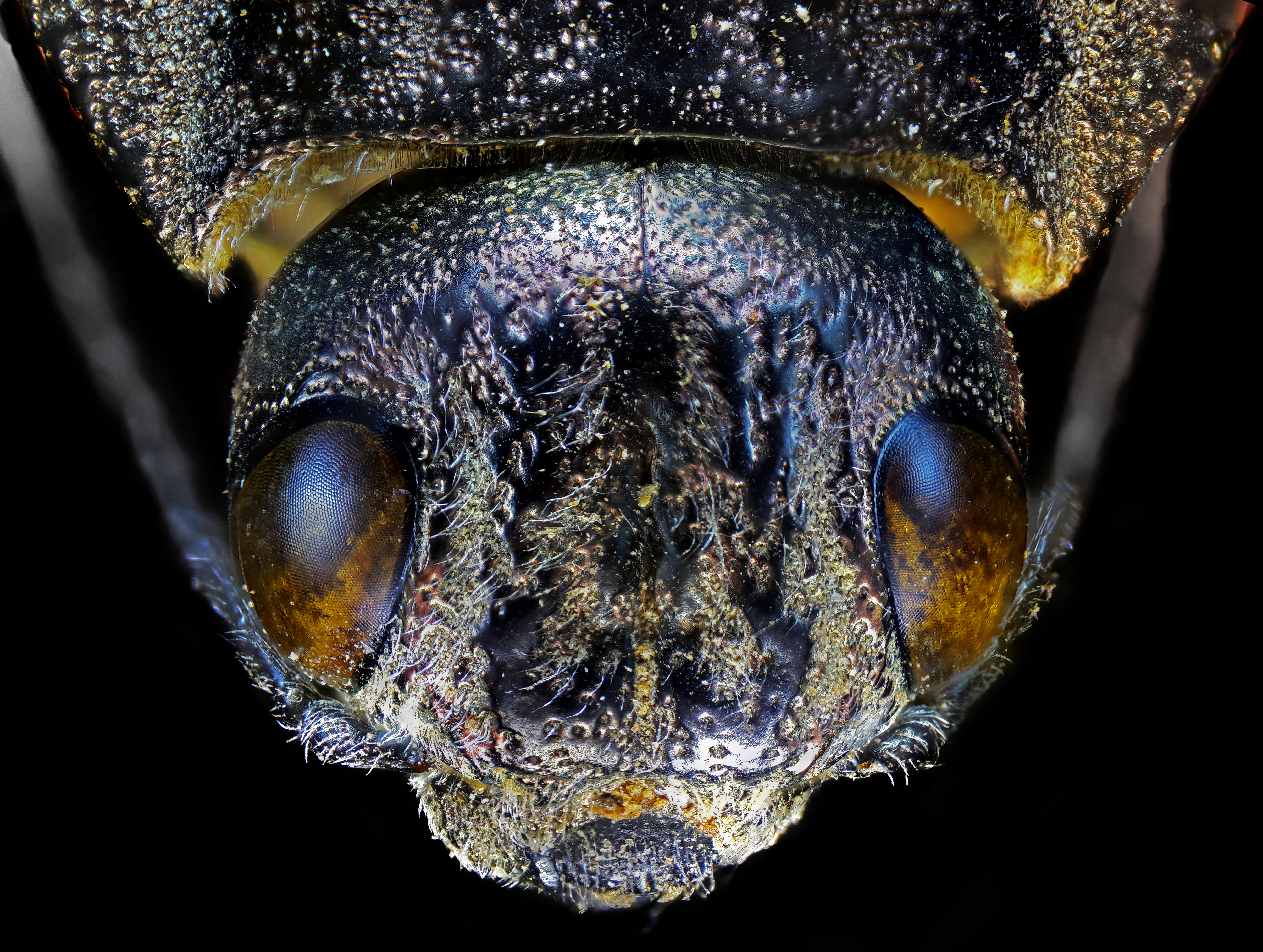 Jewel beetles head